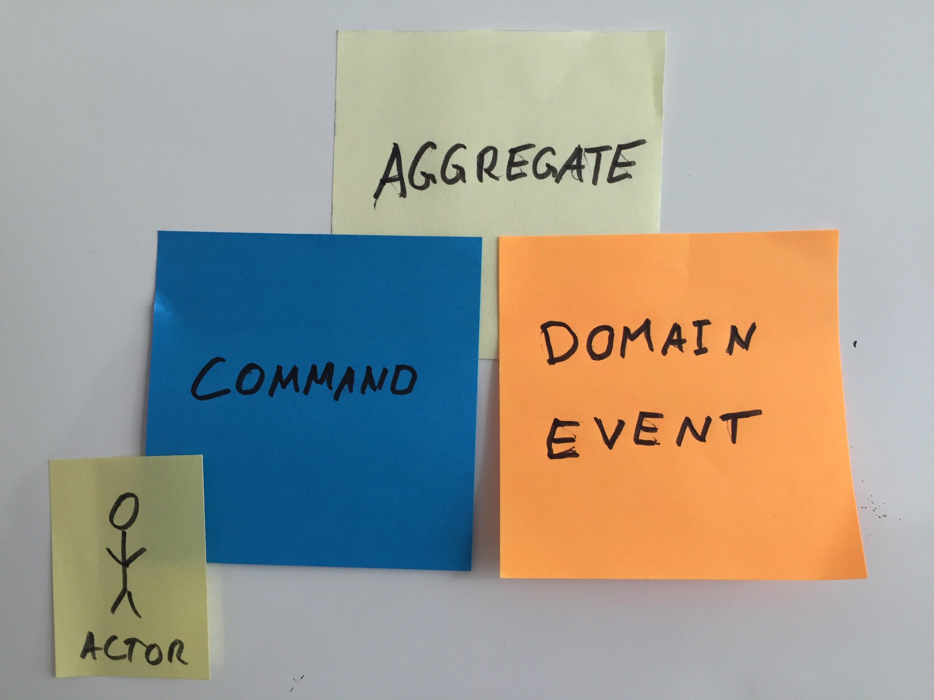 An aggregate with corresponding command and domain event